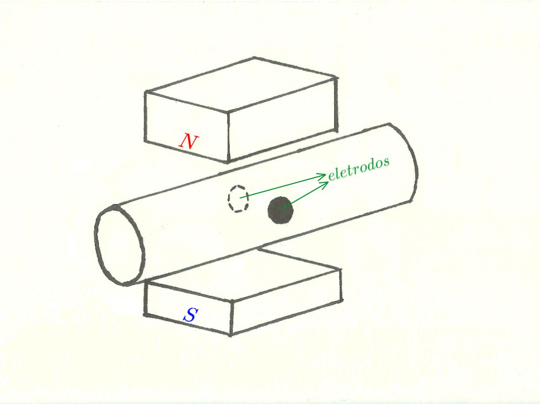 simplified electromagnetic flowmeter with portuguese labels